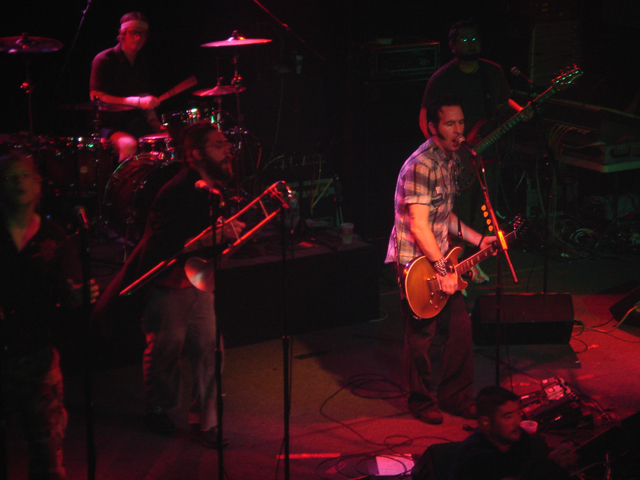 Reel Big Fish live at the Pipeline Cafe in Honolulu, Hawaii. From left: John Christianson, Ryland Steen, Dan Regan, Aaron Barrett, Matt Wong. Scott Klopfenstein is not pictured.